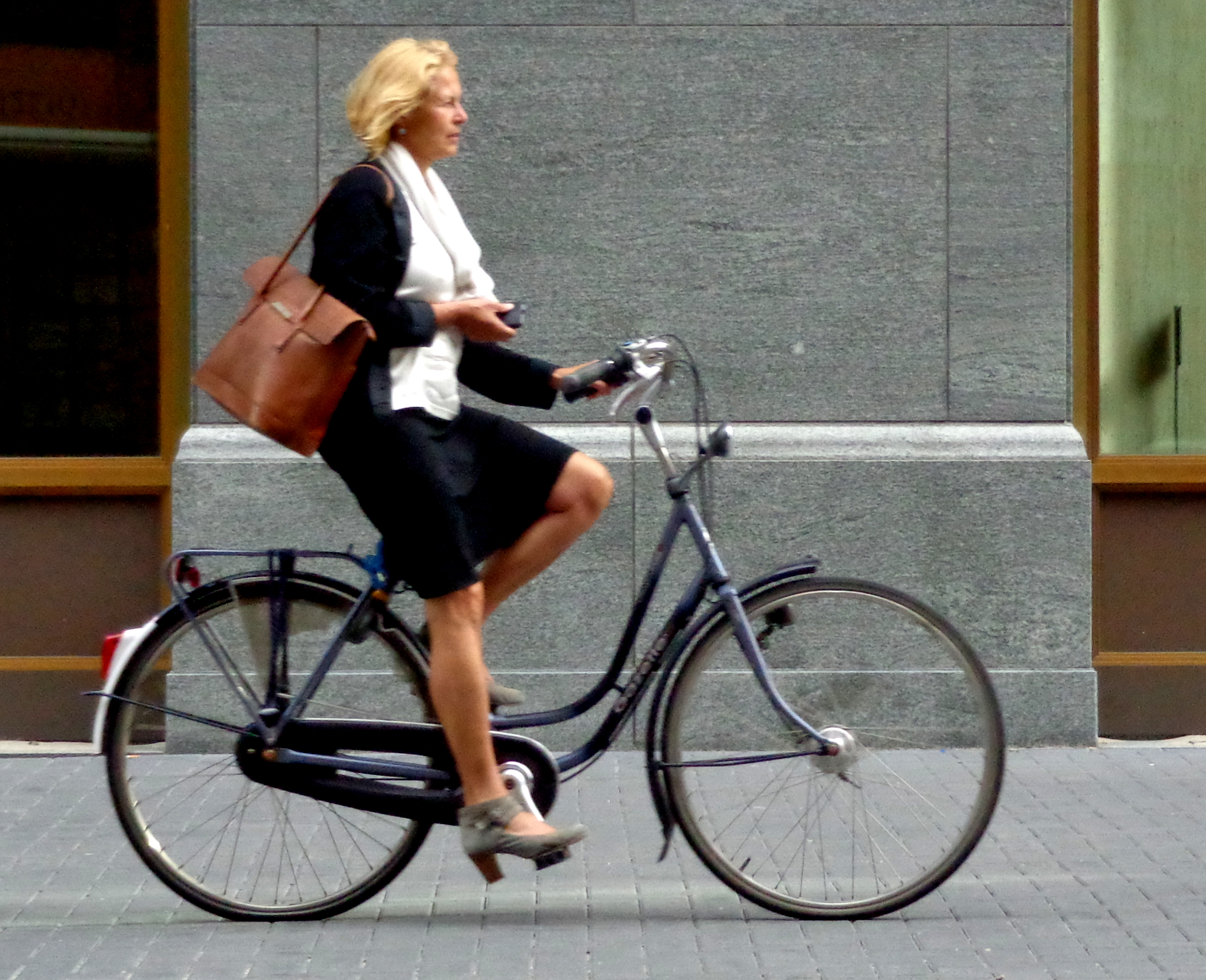 Bicycle in The Hague city-centre. Very important: if the person in this photo would like not to be presented in this photo, even considering I published freely in Wikimedia and for non-profit educational purposes, kindly let me know, that I would remove the photo immediately .